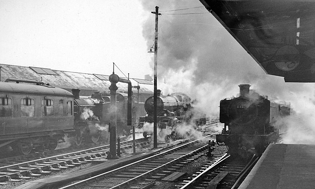 Gloucester Central Station, with trains. View SE on the main Down platform, towards Cheltenham etc. and Swindon etc.; ex-Great Western South Wales Main Line, which runs from (London etc.) via Swindon to Chepstow, Newport, Cardiff, Swansea etc., branching off the original Cheltenham & Great Western Union line at Gloucester South Junction. The lines from here to Cheltenham are joint with the ex-Midland Birmingham - Bristol main line, which join from the Bristol direction at Tramway Junction. Since the whole railway layout at Gloucester was altered in 1975 by the elimination of the ex-Midland Gloucester Eastgate Station (see SO8318 : Gloucester Eastgate Station and SO8318 : Gloucester Eastgate Station, with trains) with the Tuffley Loop line, and the reconstruction of Gloucester Central, all trains on the Birmingham - Bristol axis calling at Gloucester have had to reverse here, as well as those from Cheltenham. Before 1975 only trains Cheltenham - Swindon, London etc. did so, and the 94XX 0-6-0 Pannier-tank on the right is probably arriving on a train from Cheltenham destined to reverse. The 51XX 2-6-2T on the train at the opposite platform will have arrived on a train from the West, probably from Hereford via Grange Court (on the South Wales line). The 'Castle' 4-6-0 on the Up middle line is running light engine towards the nearby Horton Road GWR Locomotive Depot.